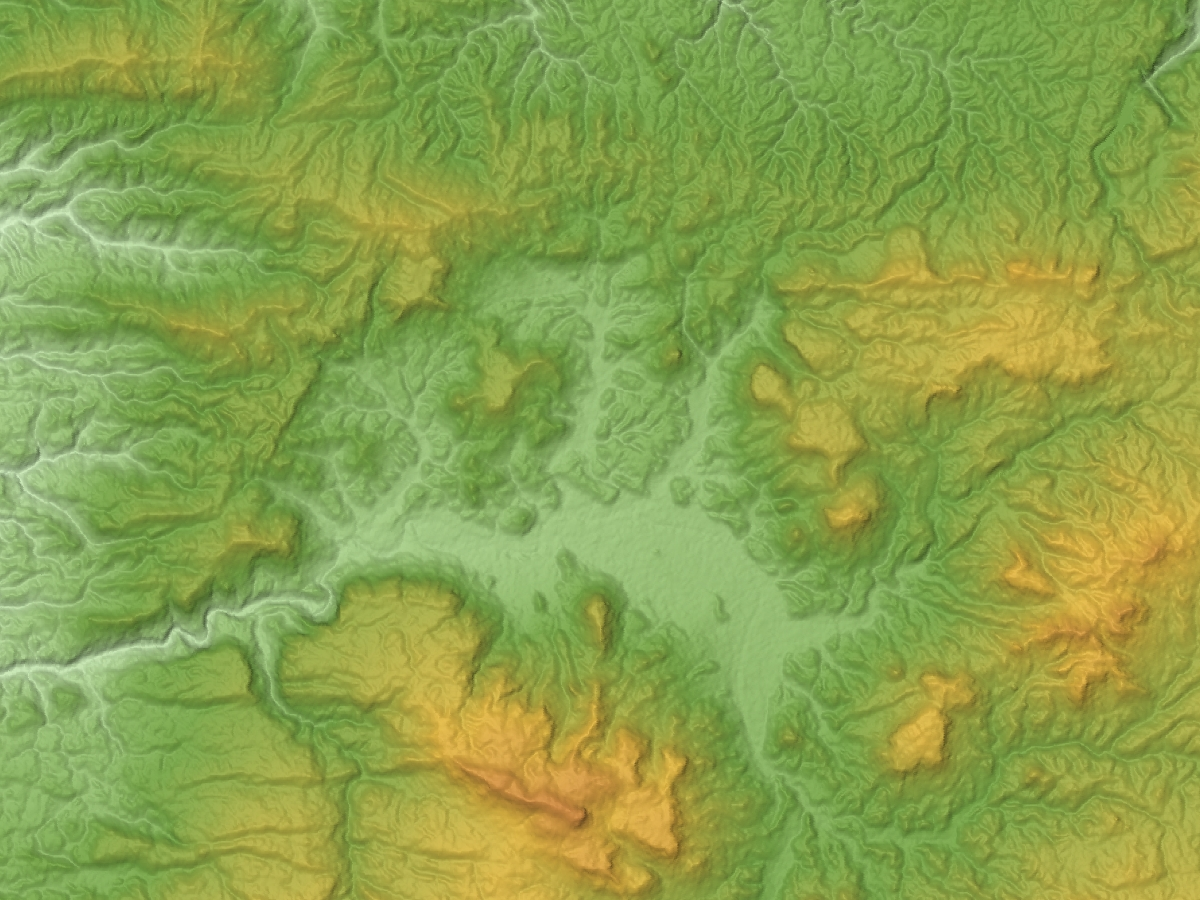 Kusu Basin in Oita Prefecture, Kyushu, Japan.